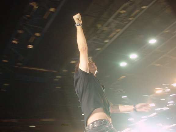 Luciano Ligabue at L7 concert at Assago (Milan) Datch Forum